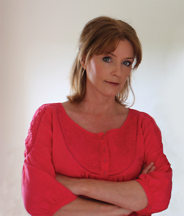 Photo of Mary Dillon